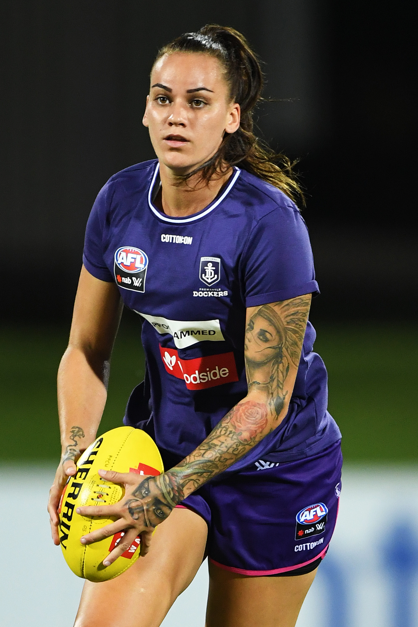 Gemma Houghton of Fremantle during the 2019 AFL Women's practice match between the Adelaide Football Club and Fremantle Football Club at TIO Stadium on January 19, 2019 in Darwin Australia.